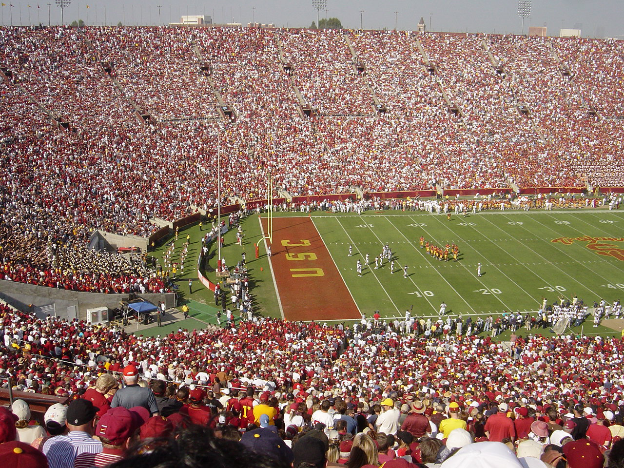 The Cal Golden Bears visit the USC Trojans at the sold out L.A. Coliseum in what would be a pivotal college football game on October 9, 2004; USC would win a close game, 23-17.